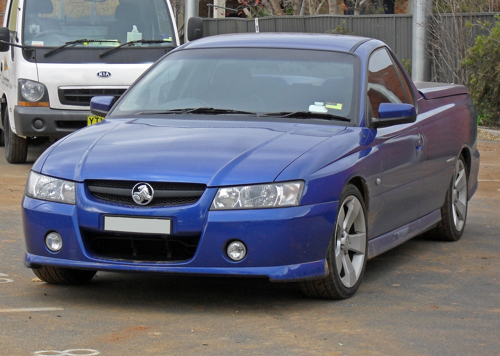 2006 Holden VZ Ute Thunder S photographed in New South Wales, Australia.